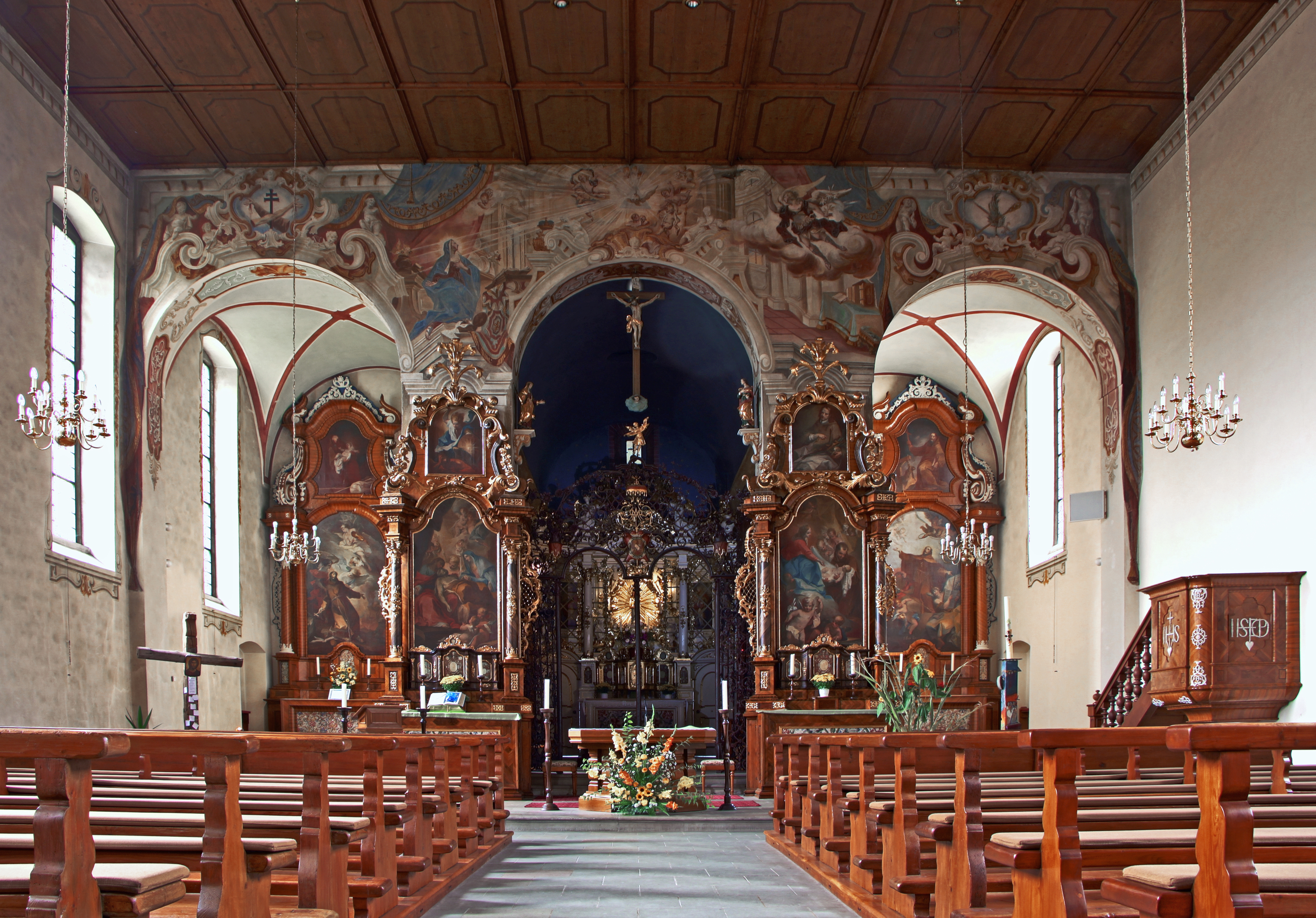 Interior of the pilgrimage and monastery church „Maria Loreto“, Stühlingen, Germany.